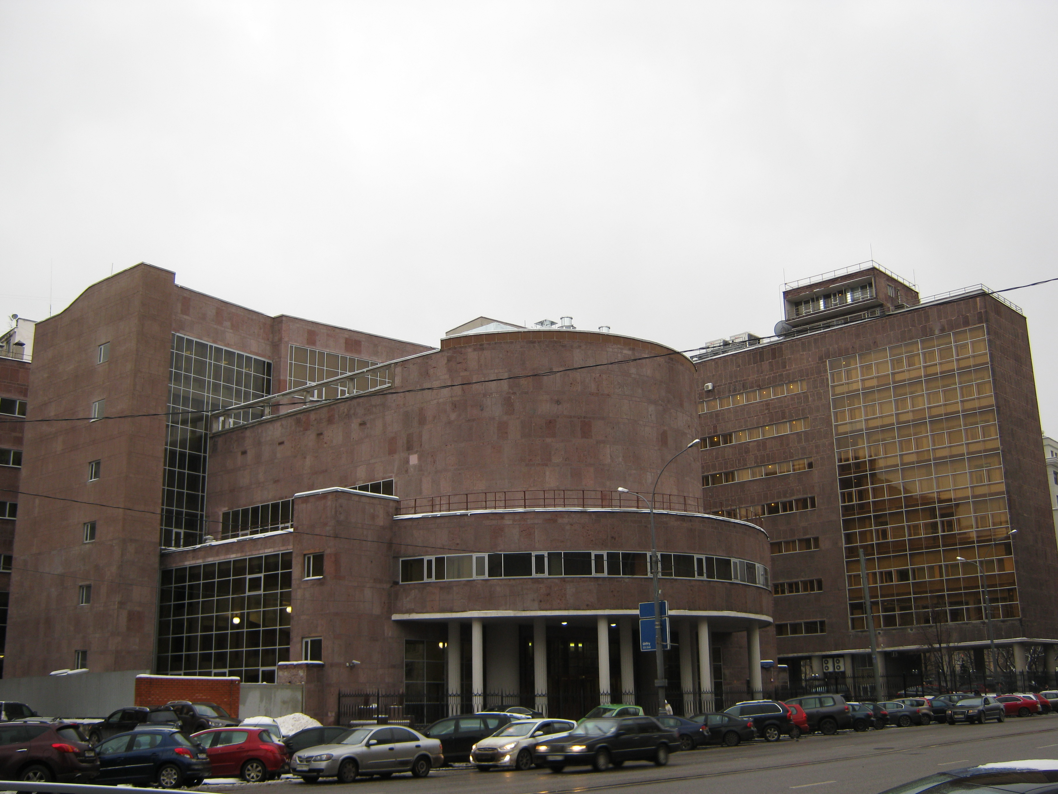 The Tsentrosoyuz building (Centrosoyuz Building) — in Moscow. Designed by French Modernist architect Le Corbusier and Russian Constructivist architect Nikolai Kolli between 1926 and 1933.